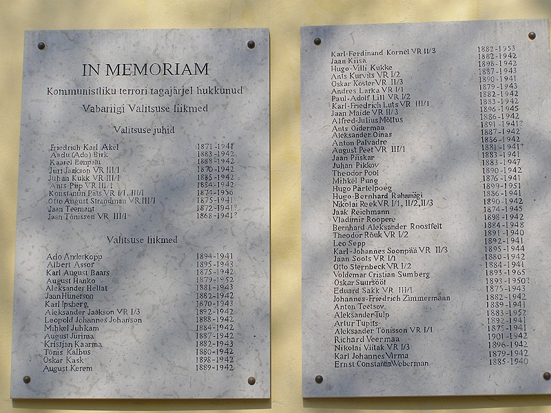 Plaque memorizing members of Estonian government who were killed by Communist terror. Location: residence of Government of Estonia (a.k.a. "The Stenbock House"), Toompea,Tallinn, Estonia. Date: May 2006.